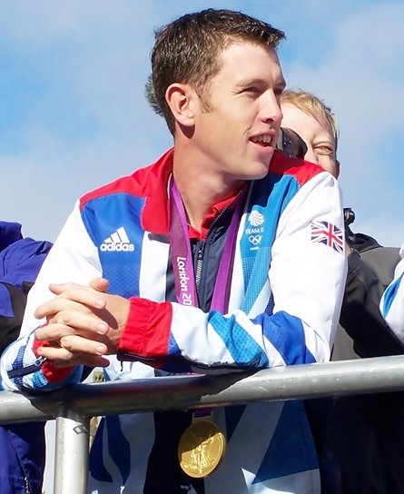 Scottish athletes from Team GB London 2012 Olympics and Paralympics gather at Kelvingrove Museum in Glasgow for the Homecoming Parade to George Square